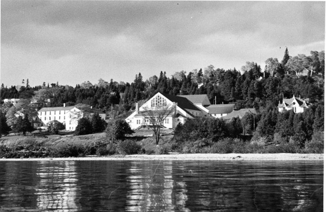 The first modern building at Mission Point, in 1955 the Theater is situated between Mission House (left) and Faren Cottage (right).